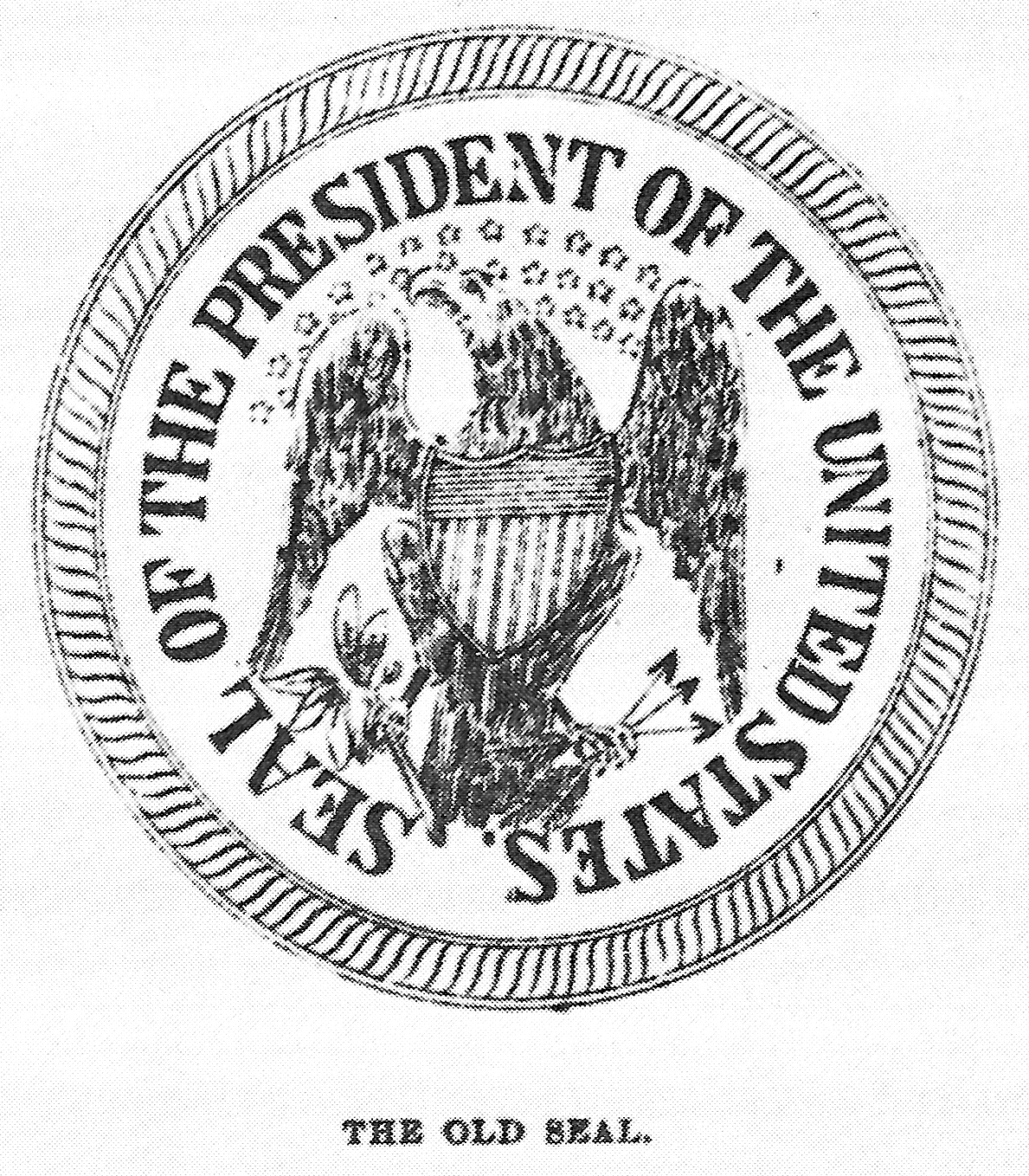 An old version of the Seal of the President of the United States, printed in an 1885 article in the magazine the Daily Graphic. The text of the article indicated it was a smaller version of the 1850 seal (also pictured in the article), but the label "The Old Seal" and the fact it has 27 stars would seem to indicate it dates from around 1846, and was the seal the 1850 version replaced.